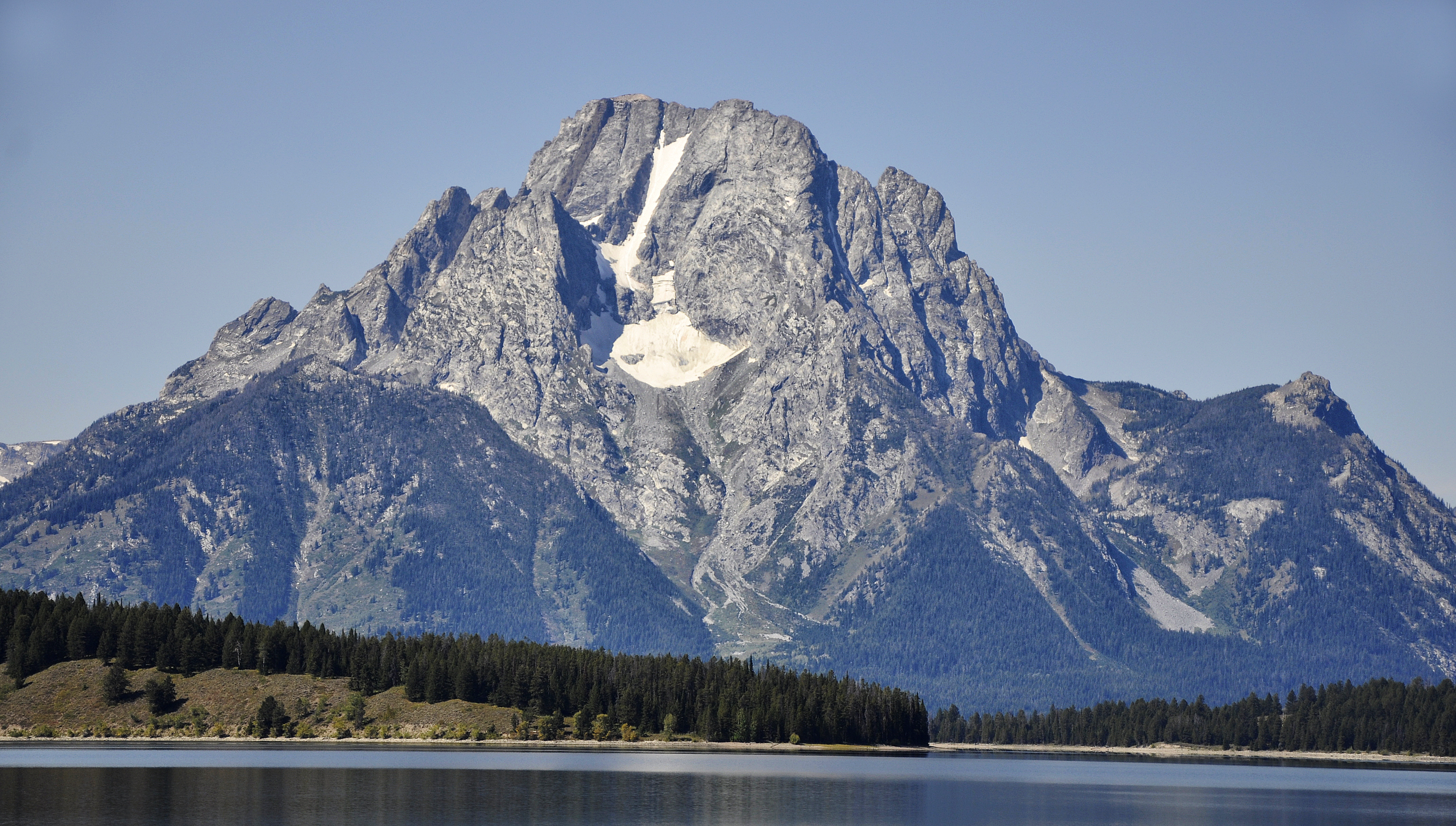 Mount Moran and its Black Dike intrusion - Jackson Lake, Wyoming, USA